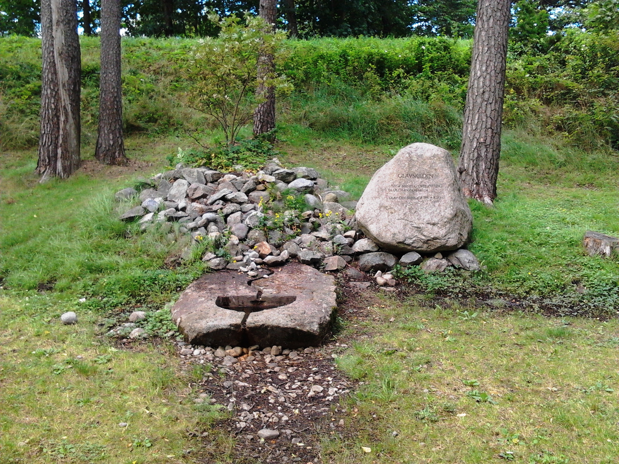 St.Olavs spring in Fjære, Grimstad Norway